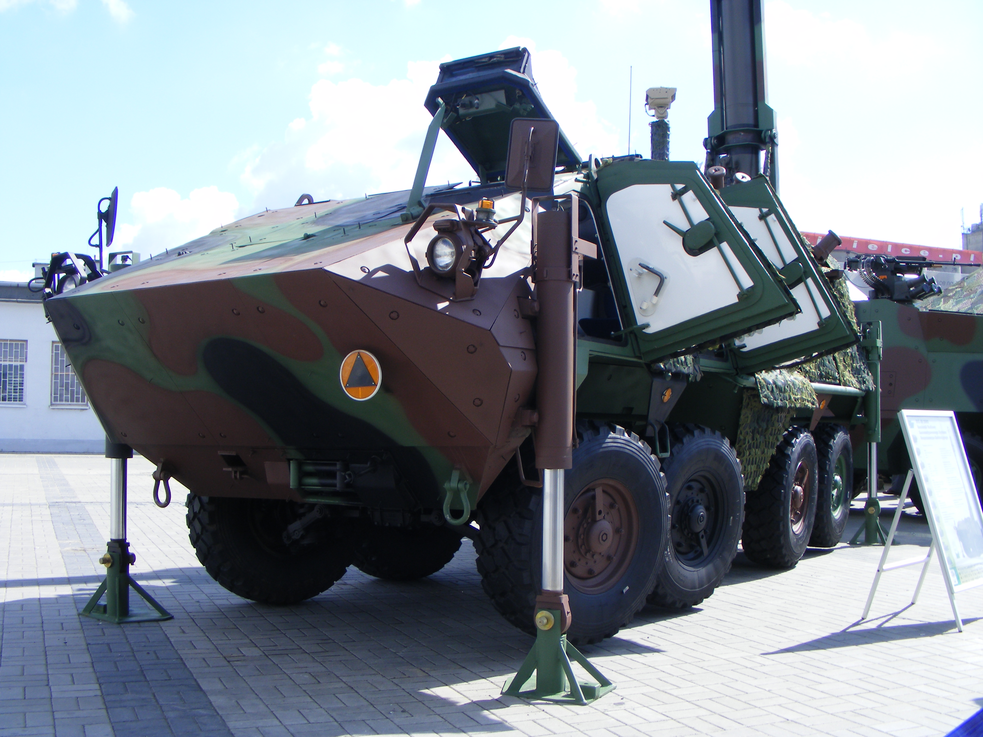 Polish "Ryś" NR NSZR shown at MSPO 2008.